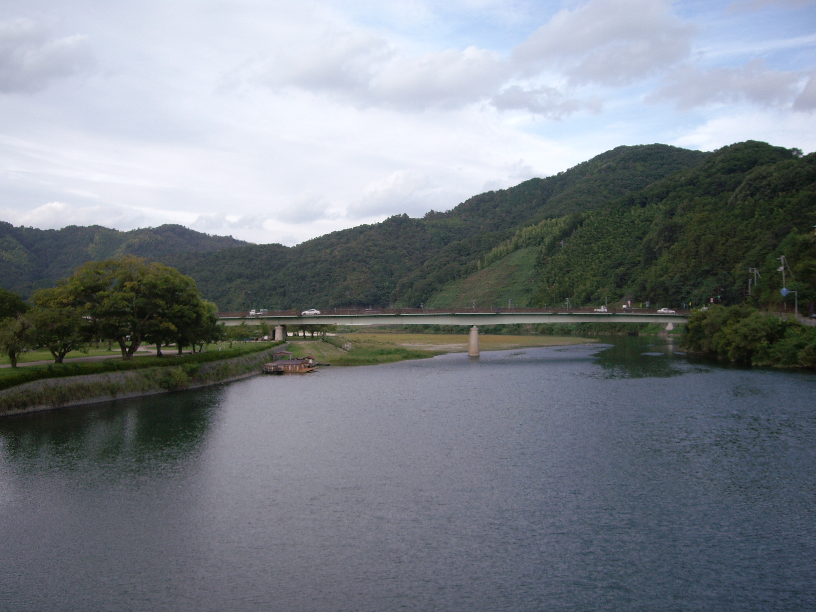 Nishiki River from Kintai Bridge.